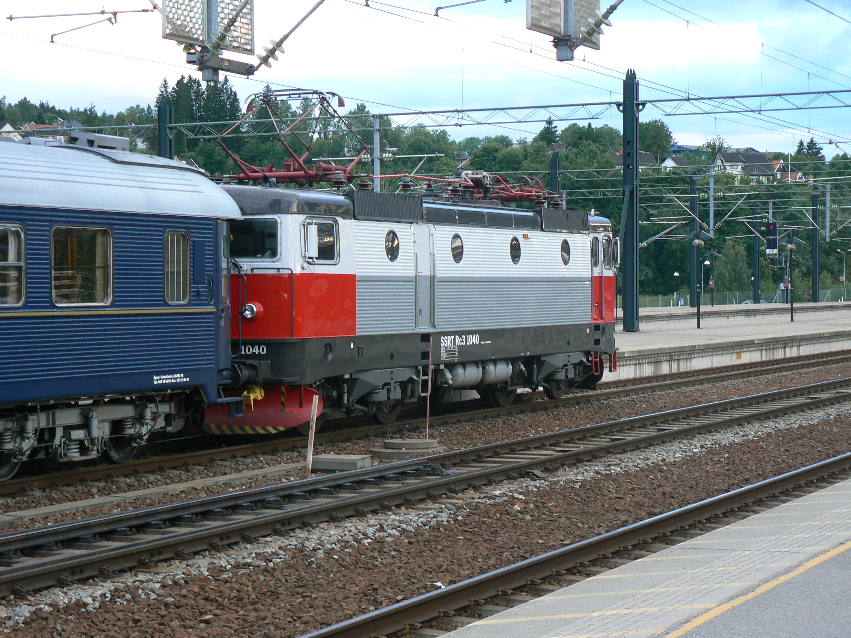 Swedish Rc3 locomotive in Affärsverket Statens Järnvägar's colours.